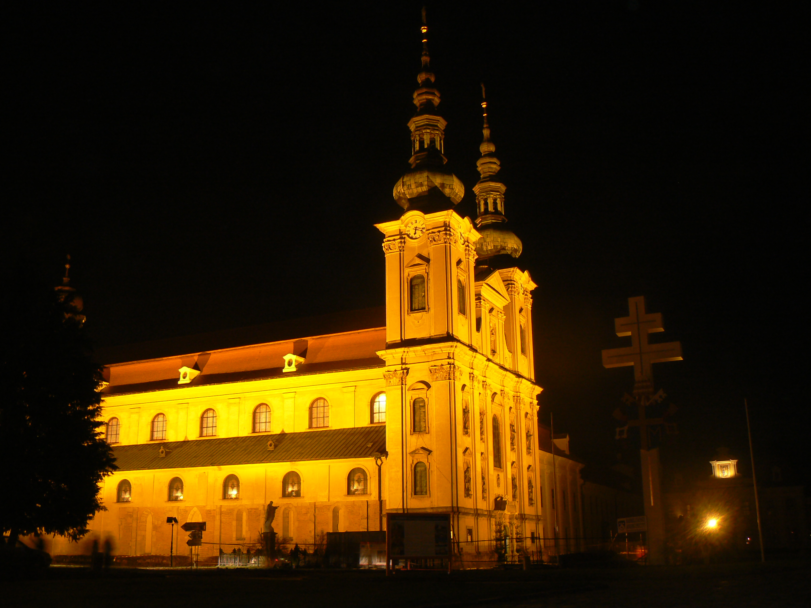 The Basilica of Assumption of Mary and St. Cyrillus and Methodius in Velehrad